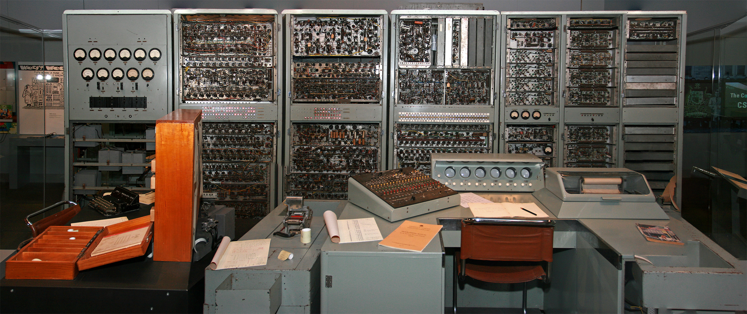 CSIRAC (Council for Scientific and Industrial Research Automatic Computer), Australia's first digital computer, and the fourth stored program computer in the world. First run in November 1949, it is the only intact first-generation computer in the world, and is on permanent display at the Melbourne Museum.